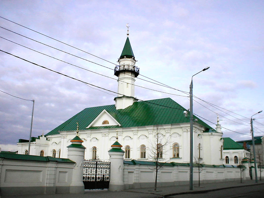 Märcani Mosque in Old Tatar Sloboda of Kazan